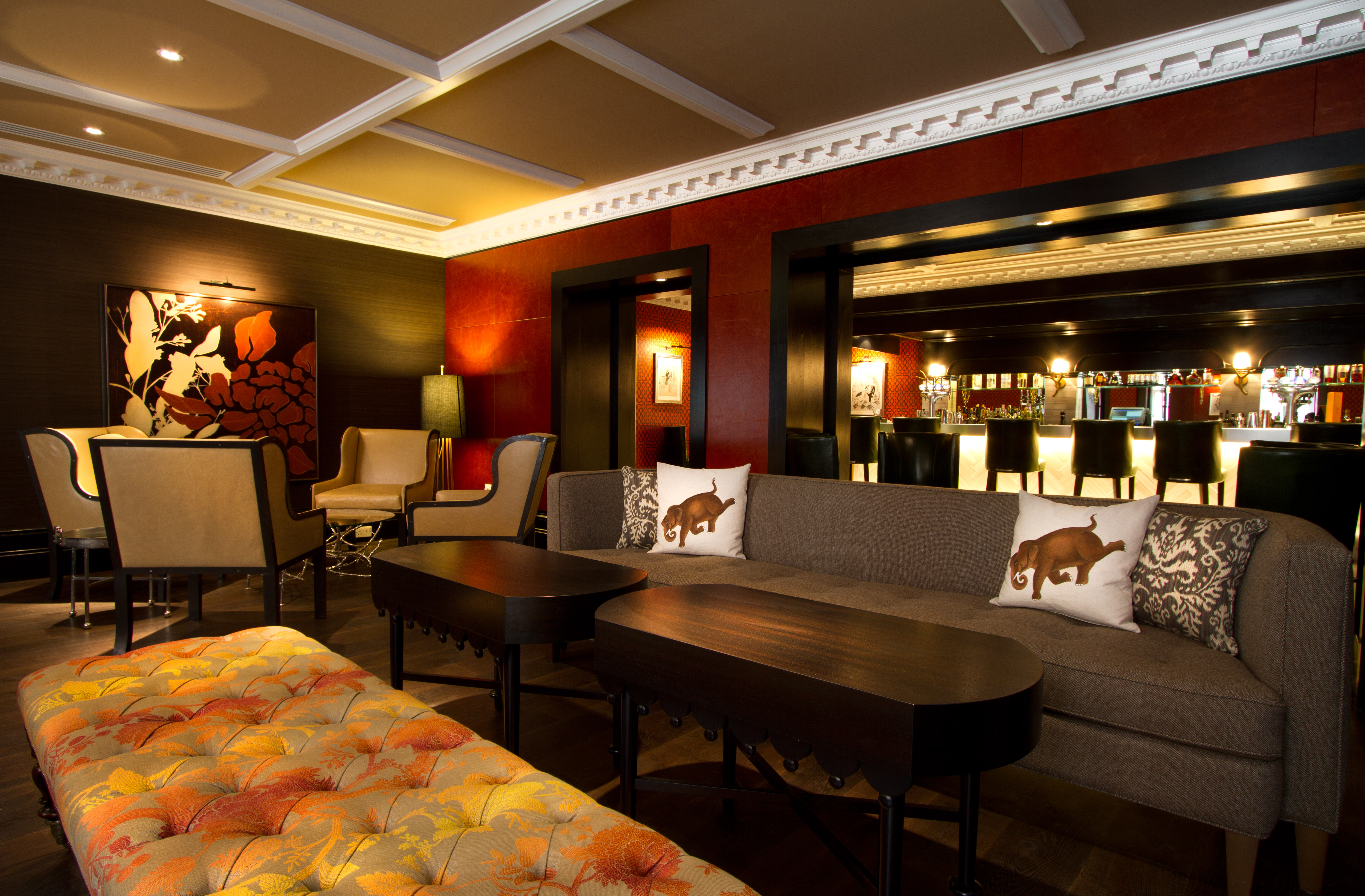 The Caxton Bar at the St Ermin's Hotel, London, noted meeting place of London's secret intelligence officers during, and since, WWII.